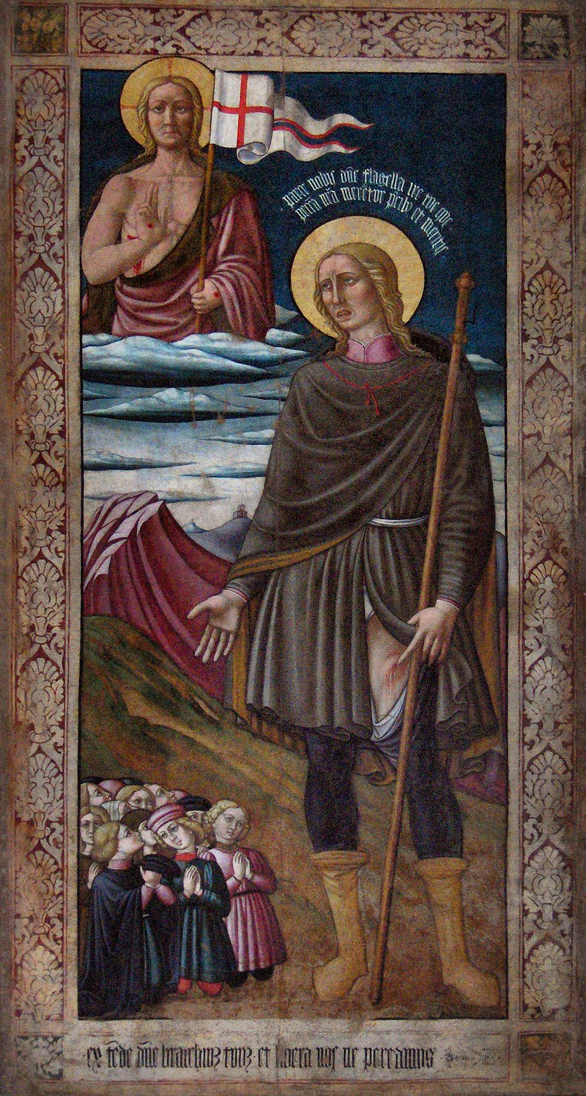 "St. Roch and the Redeemer (ca. 1480) " painting attributed to Pierantonio Mezzastris in the Church of San Giacomo, Foligno, Italy